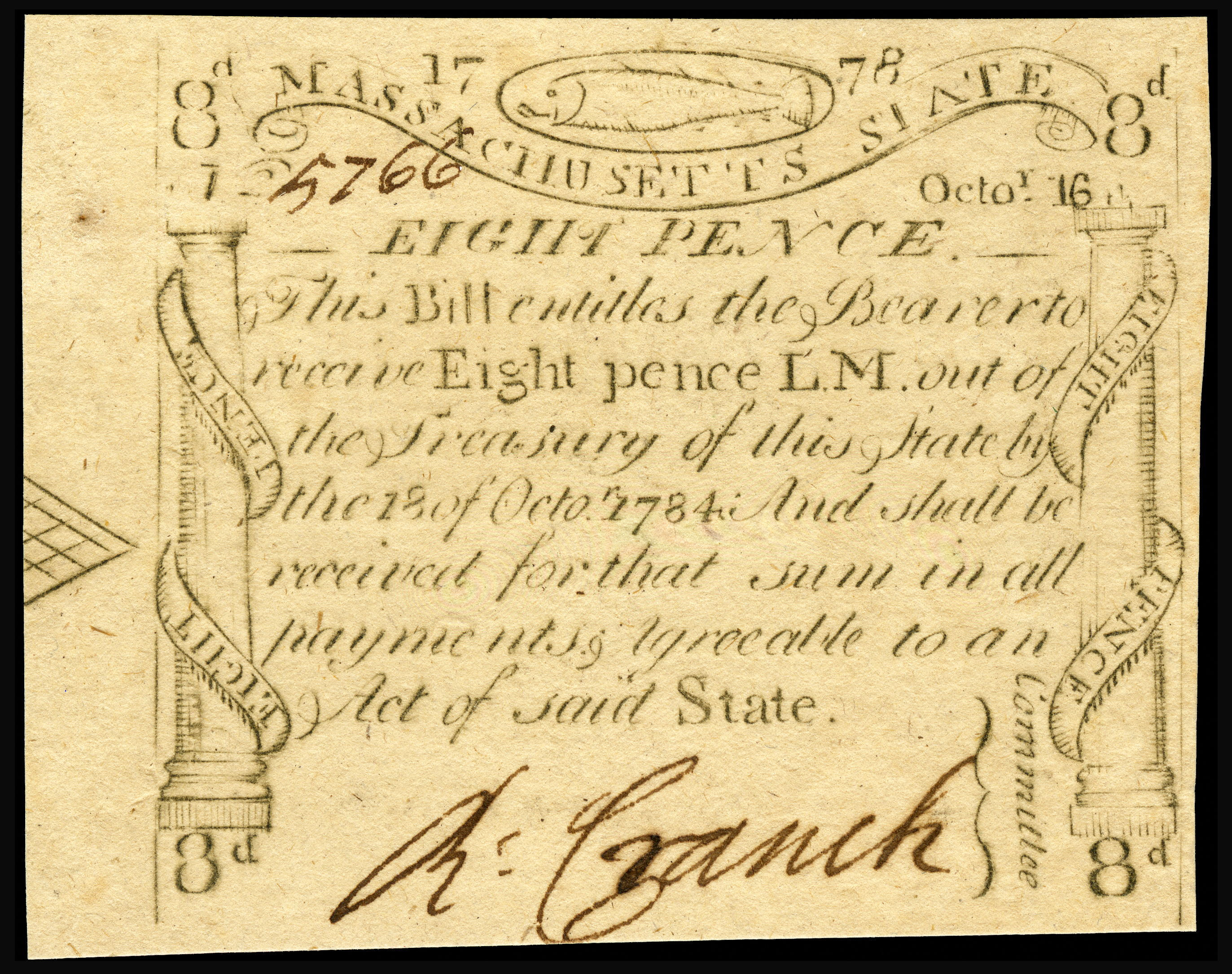 Eight pence Colonial currency from Massachusetts. Signed by Richard Cranch. Engraved and printed by Paul Revere.